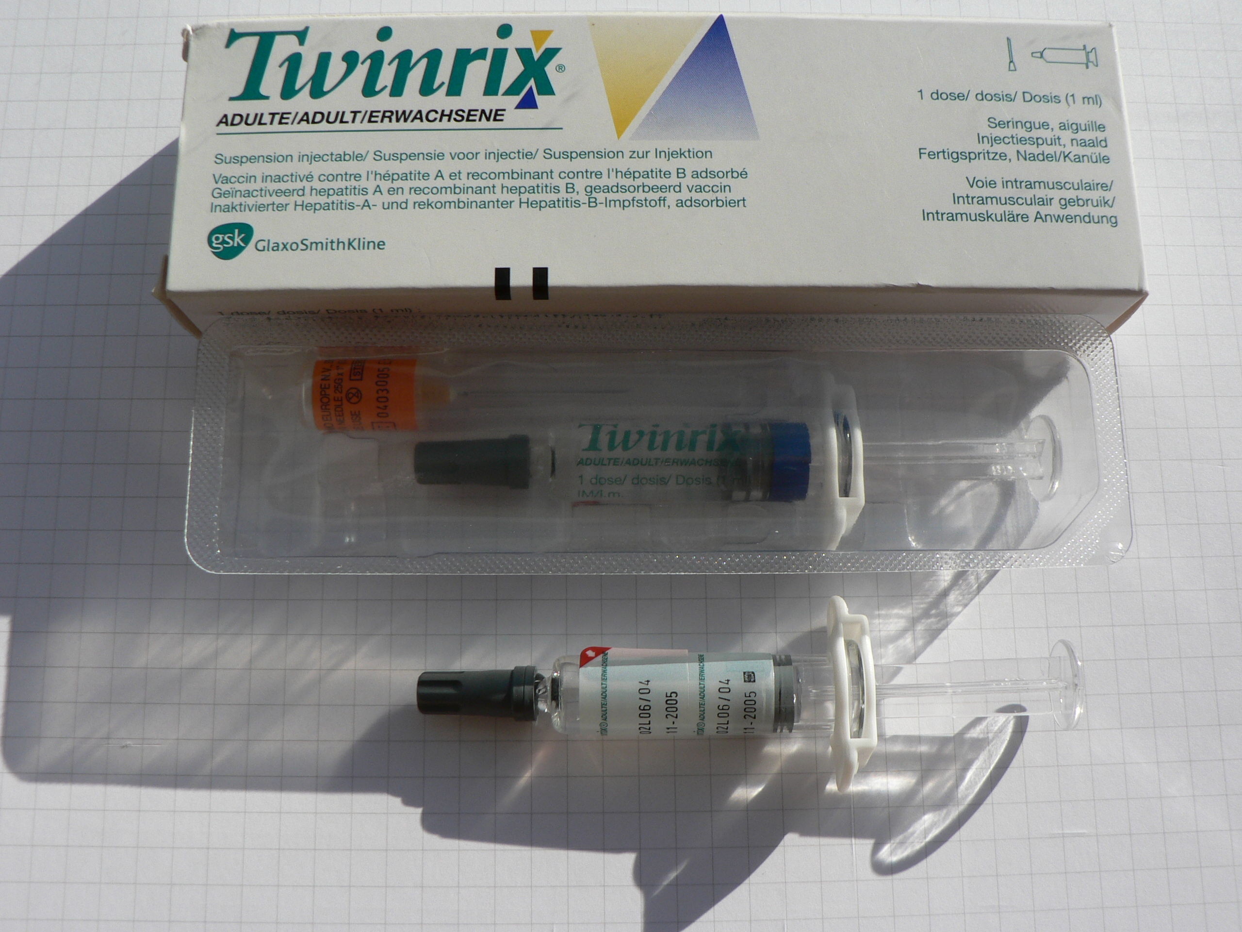 combined vaccines hepatitis A (inactivated) + hepatitis B (recombinant S antigen) with Terumo needle and syringes